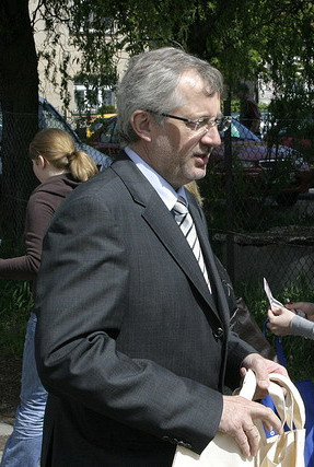 Marek Siwiec, Polish vice-president of European Parliament, member of Your Movement